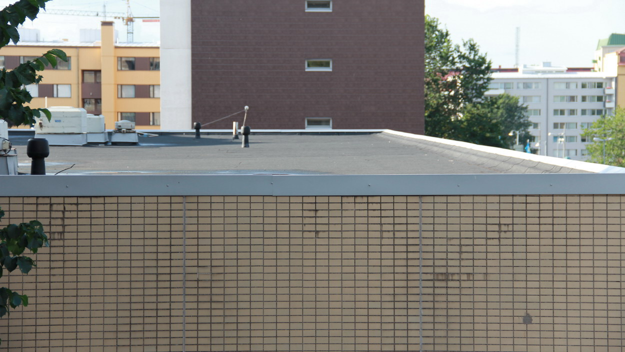 Flat roof, Martinkatu, Turku, Finland.